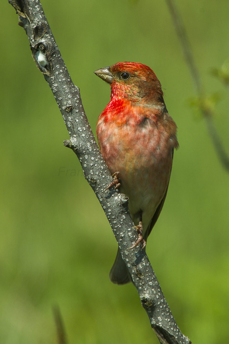 Common Rosefinch - Slovenia_S4E6014